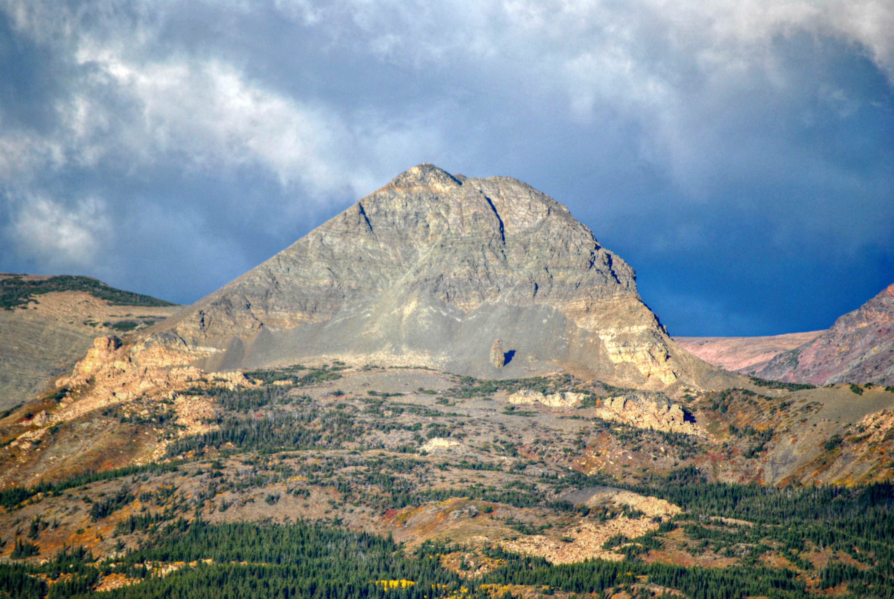 NOTE.....THE OLD SQUAW. A huge block of argillite that has become separated from the main mass of Squaw Mountain. Visible from the hotel at Glacier Park